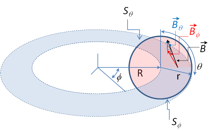 Geometry relevant to the calculation of the rotational transfrom in toroidal geometry.